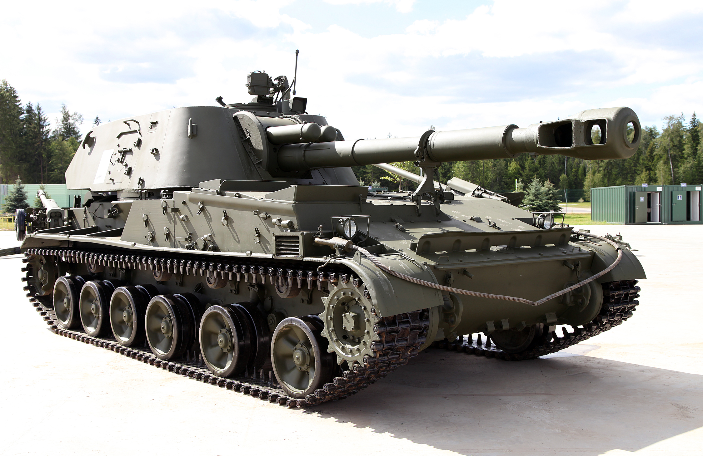 2S3 Akatsiya self-propelled artillery